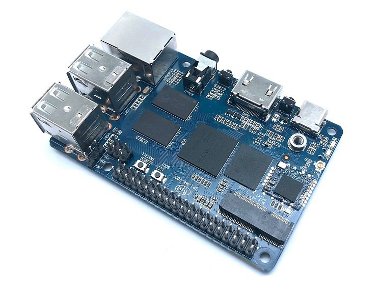 Banana pi BPI-M4